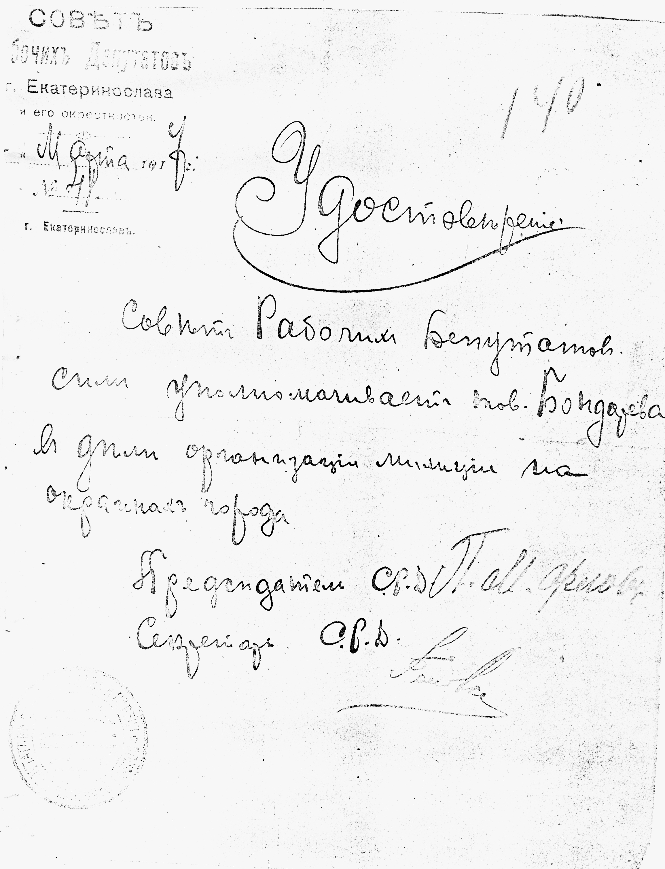 Bondarev